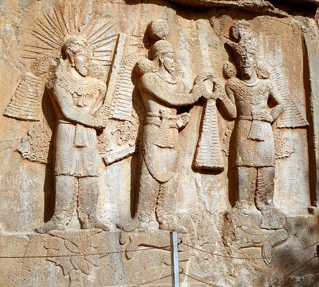 Taq-e Bostan: high-relief of Ardeshir II investiture; from left to right: Mithra, Shapur II, Ahura Mazda. Lying down: dead Roman emperor Julian.